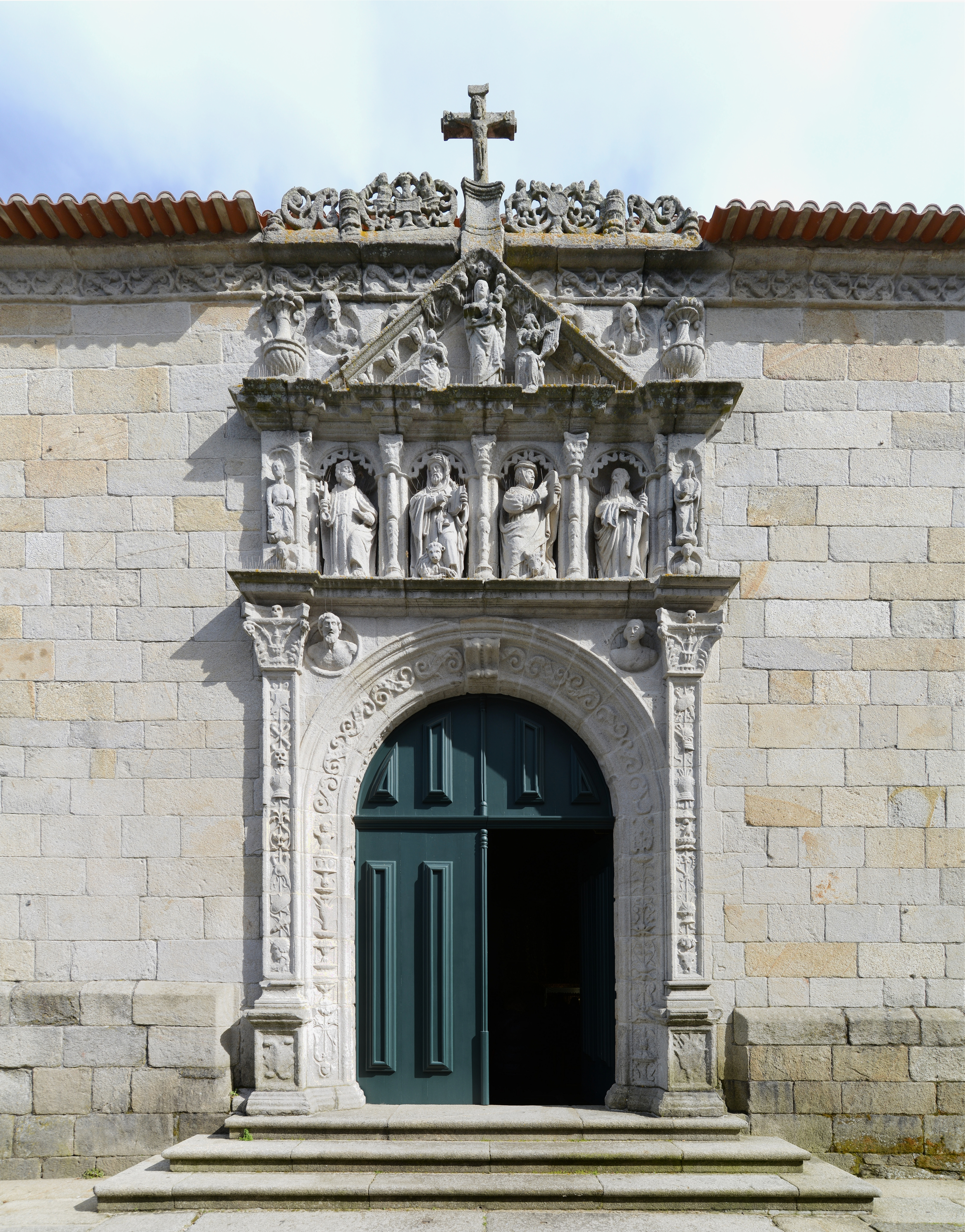 Mother Church (Cathedral) of Caminha, north of Portugal. Lateral portal